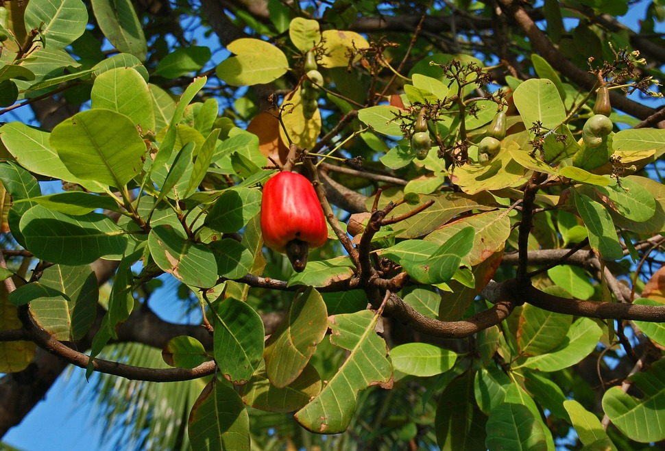 Anacardium occidentale, fruit. Palabuhan Ratu, West Java, Indonesia.